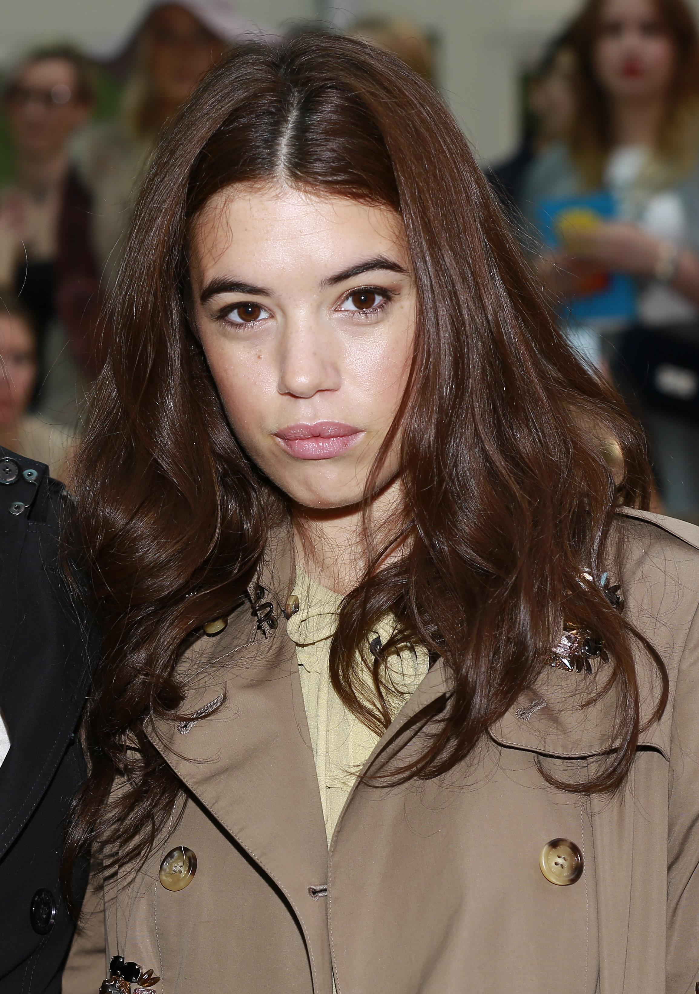 Gala Gordon attending the front row at burberry ss15 LFW